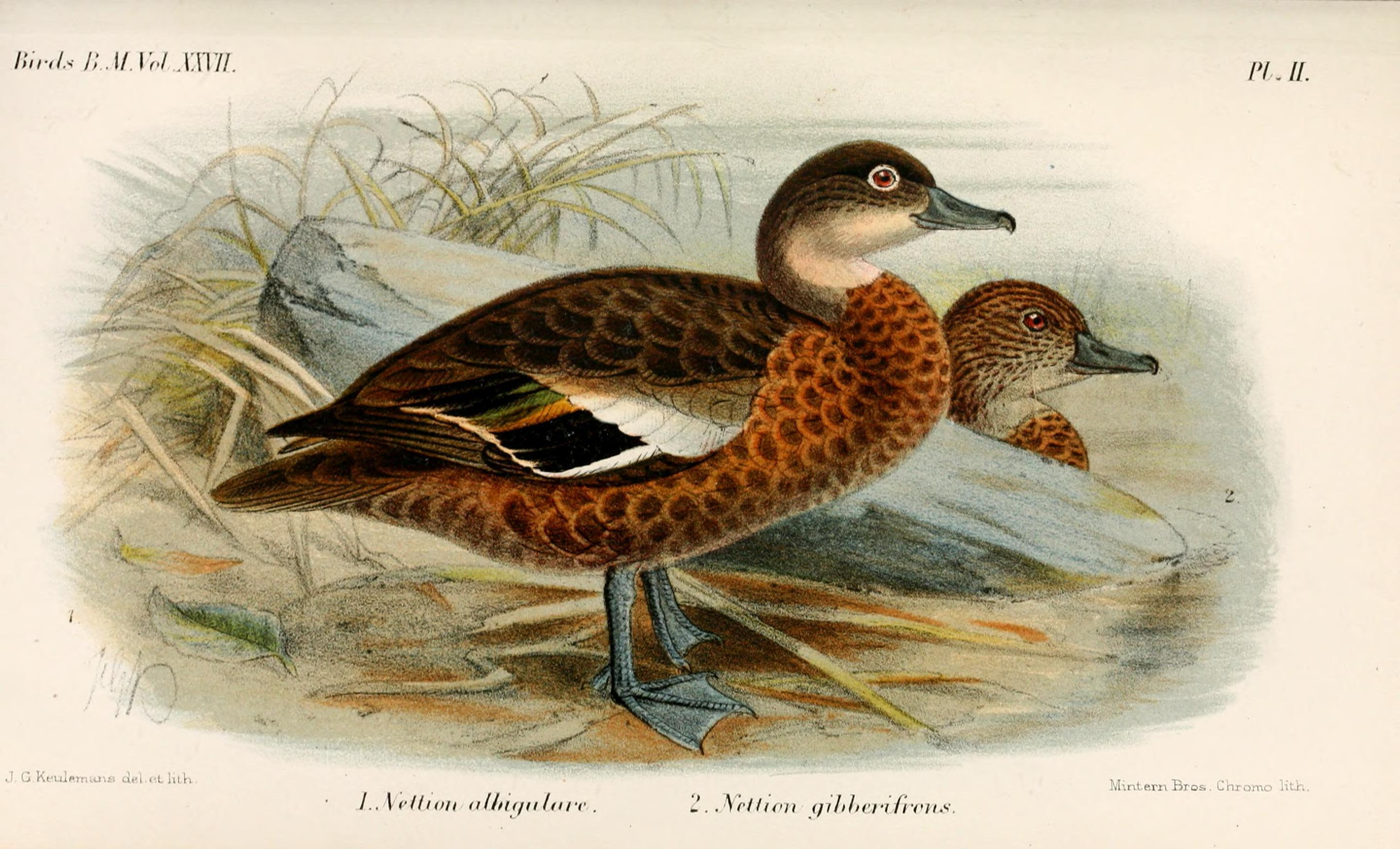 Nettion albigulare = Anas albogularis, Andaman Teal (in front); and Nettion gibberifrons = Anas gibberifrons, Sunda Teal (behind)